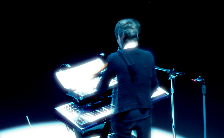 laurie anderson - homeland 4